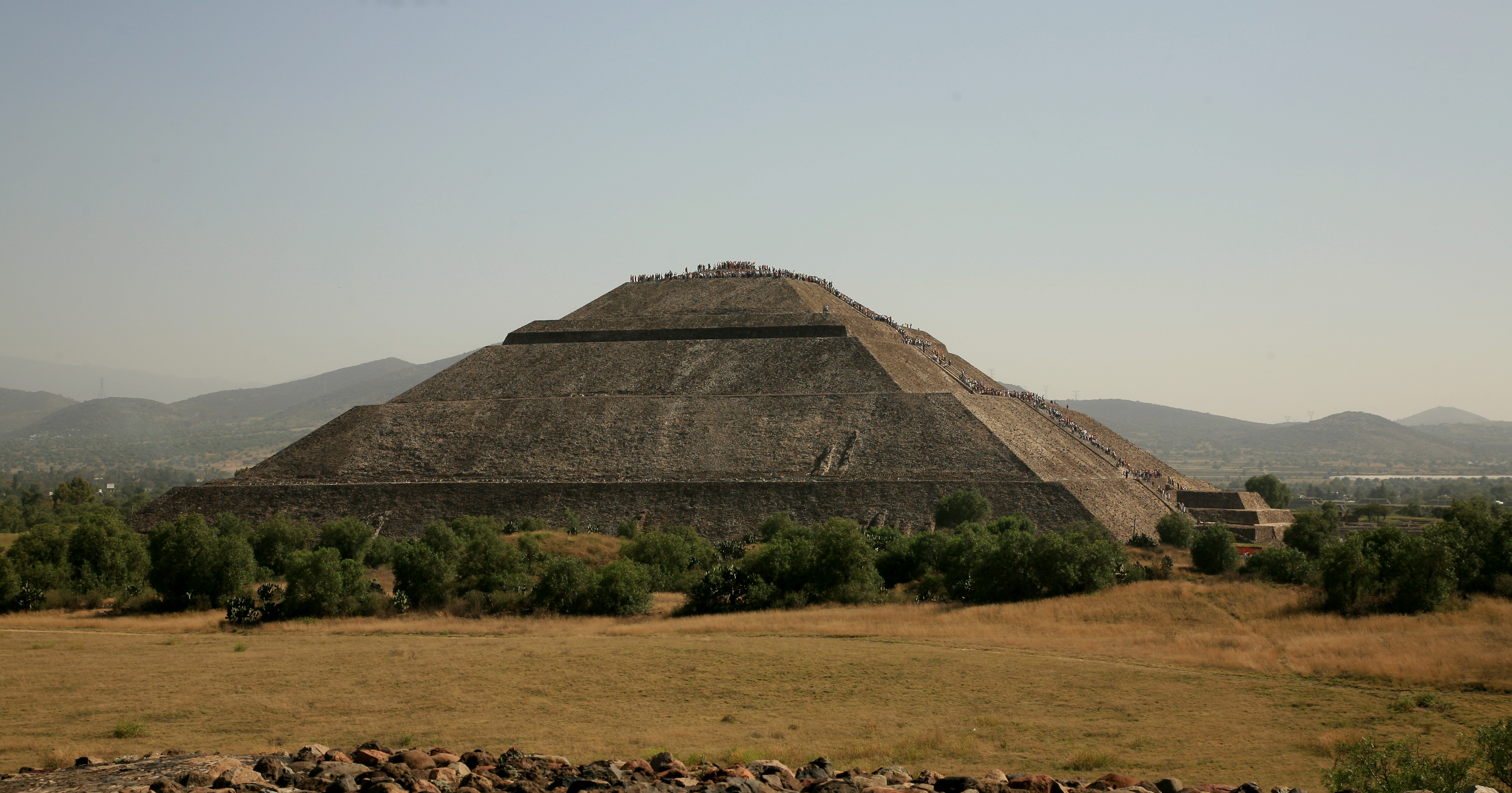 The Pyramid of the Sun at Teotihuacan with a crowd at the top